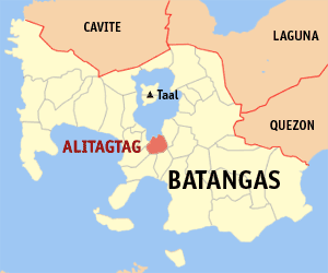 Map of Batangas showing the location of Alitagtag